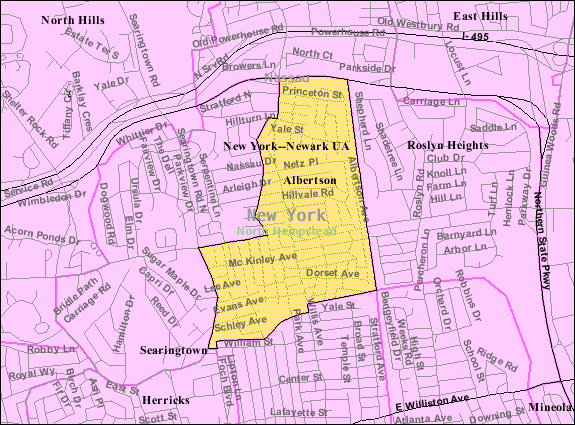 U.S. Census 2000 reference map for Albertson, New York